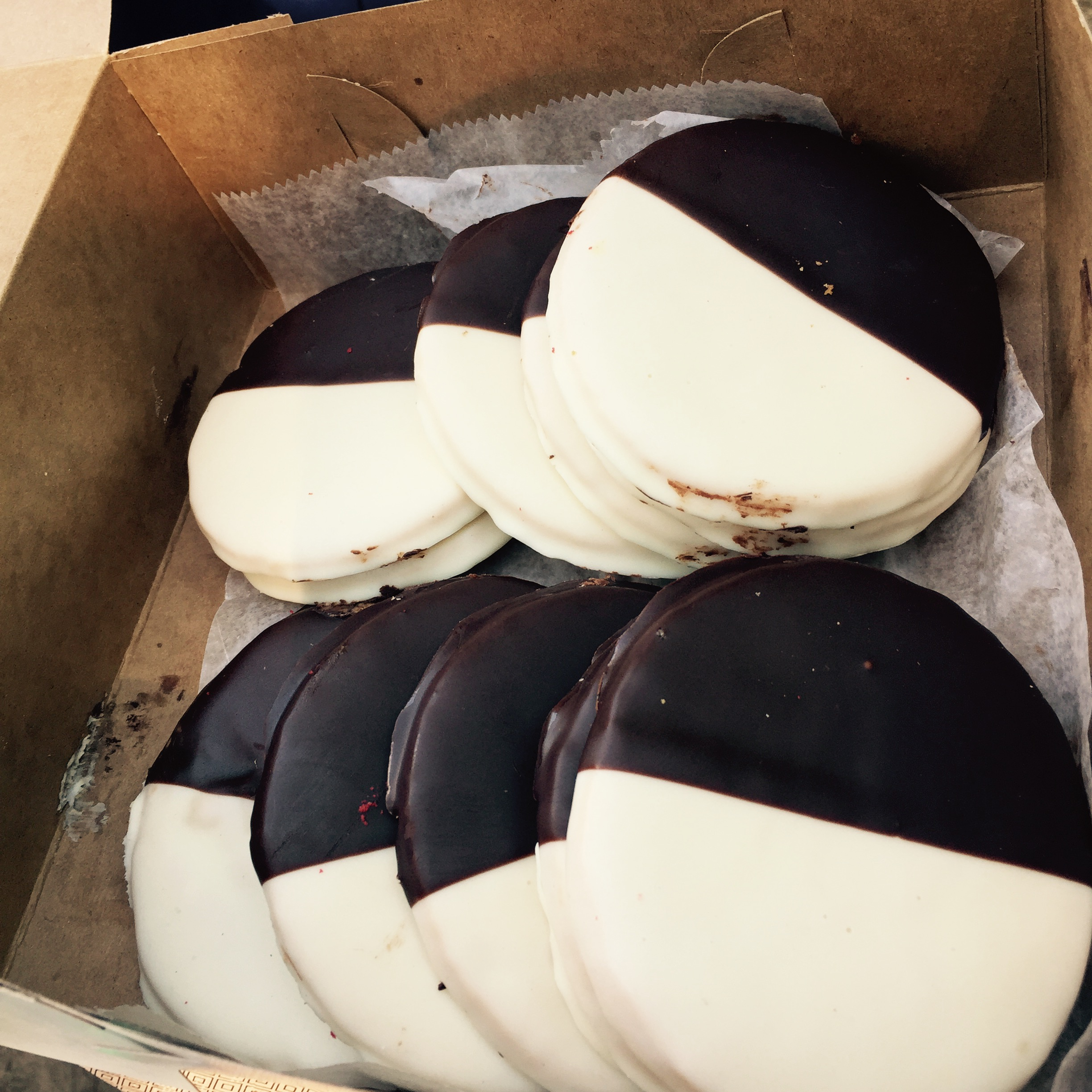 WiknicNYC Picnic - Prospect Park at Bartel-Pritchard Square Entrance